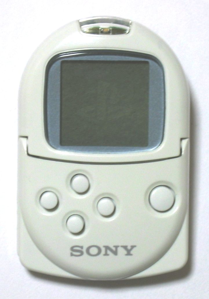 PocketStation white (SCPH-4000)